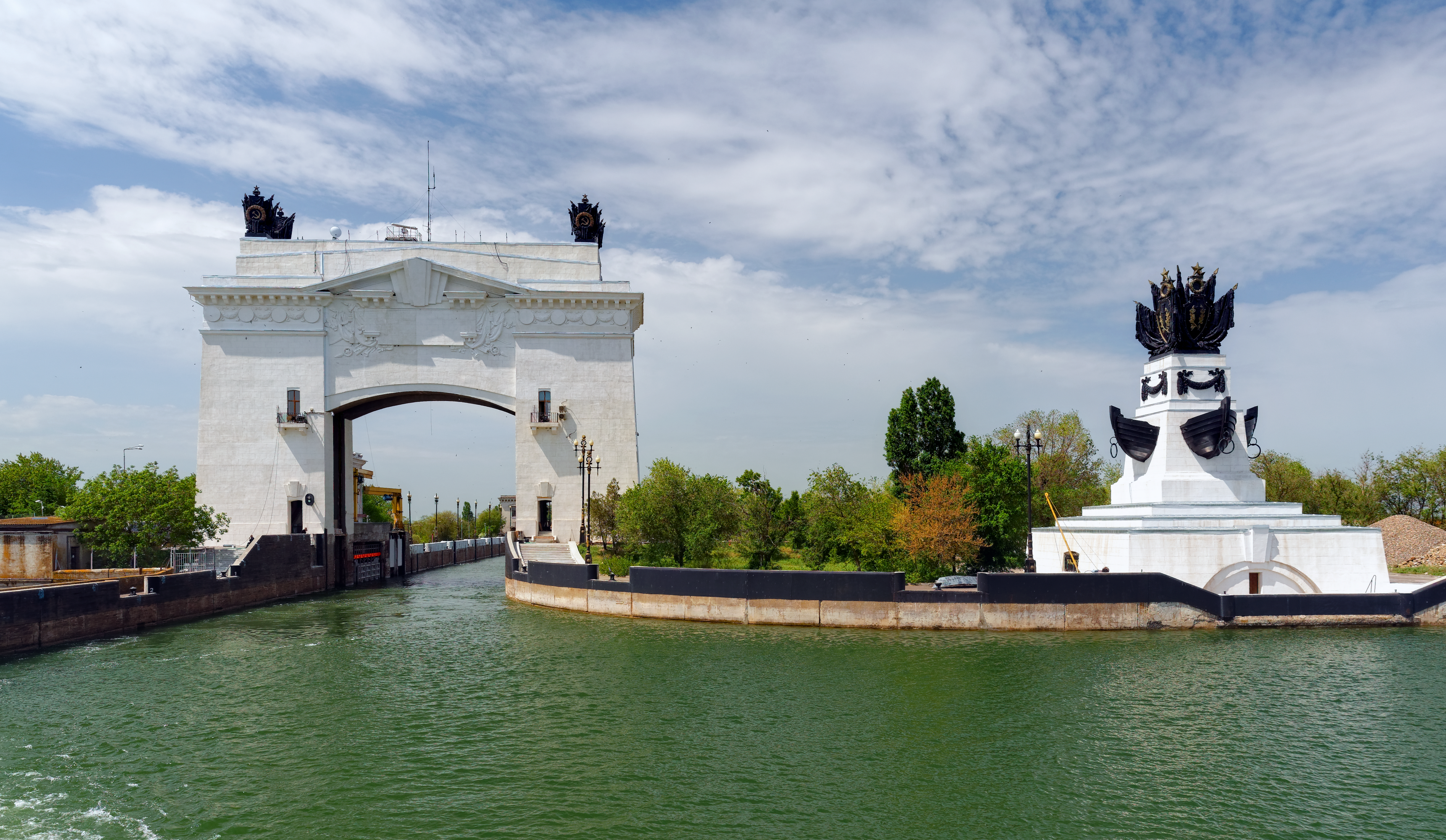 Don River. Tsimlyansk Reservoir, lock No. 14